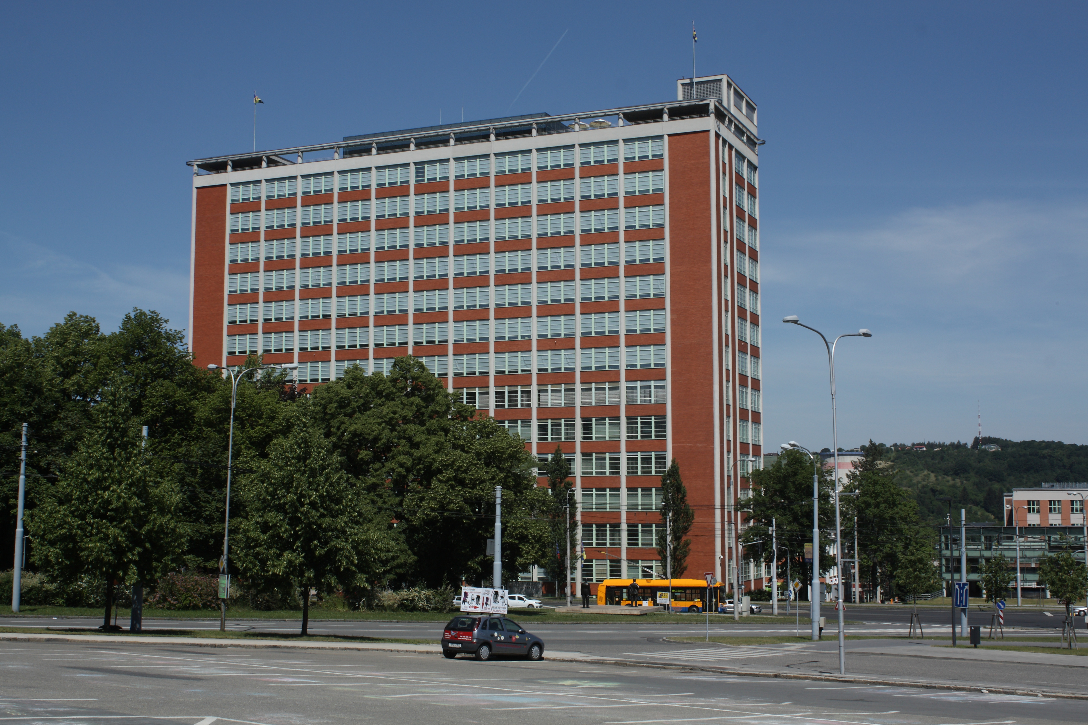 Former administrative building of Bata company, now headquarters of Zlín regional authorities. Built in 1938 according to the design of Vladimír Karfík.